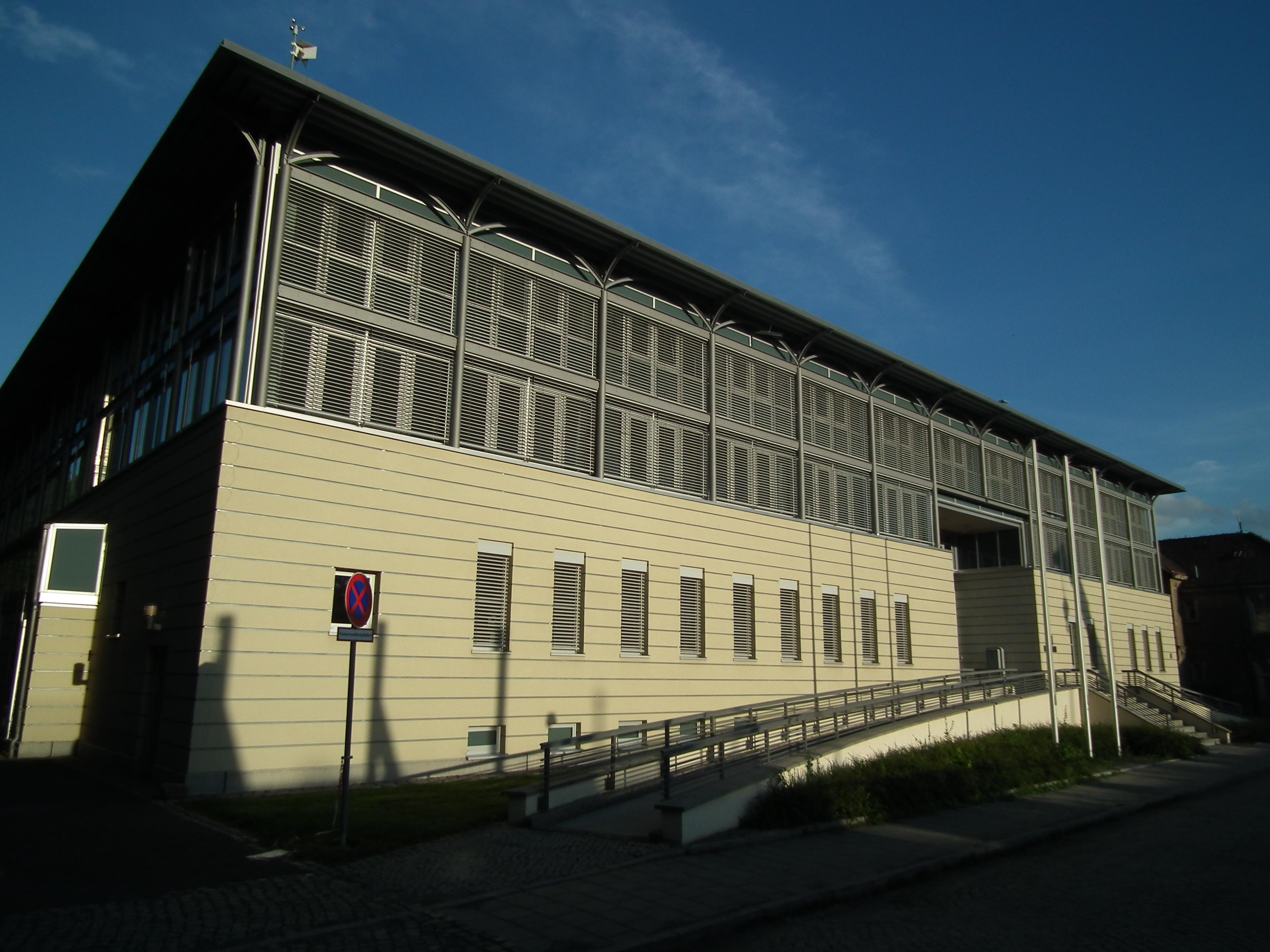 District Court Pirna; Pirna; Saxony; Germany